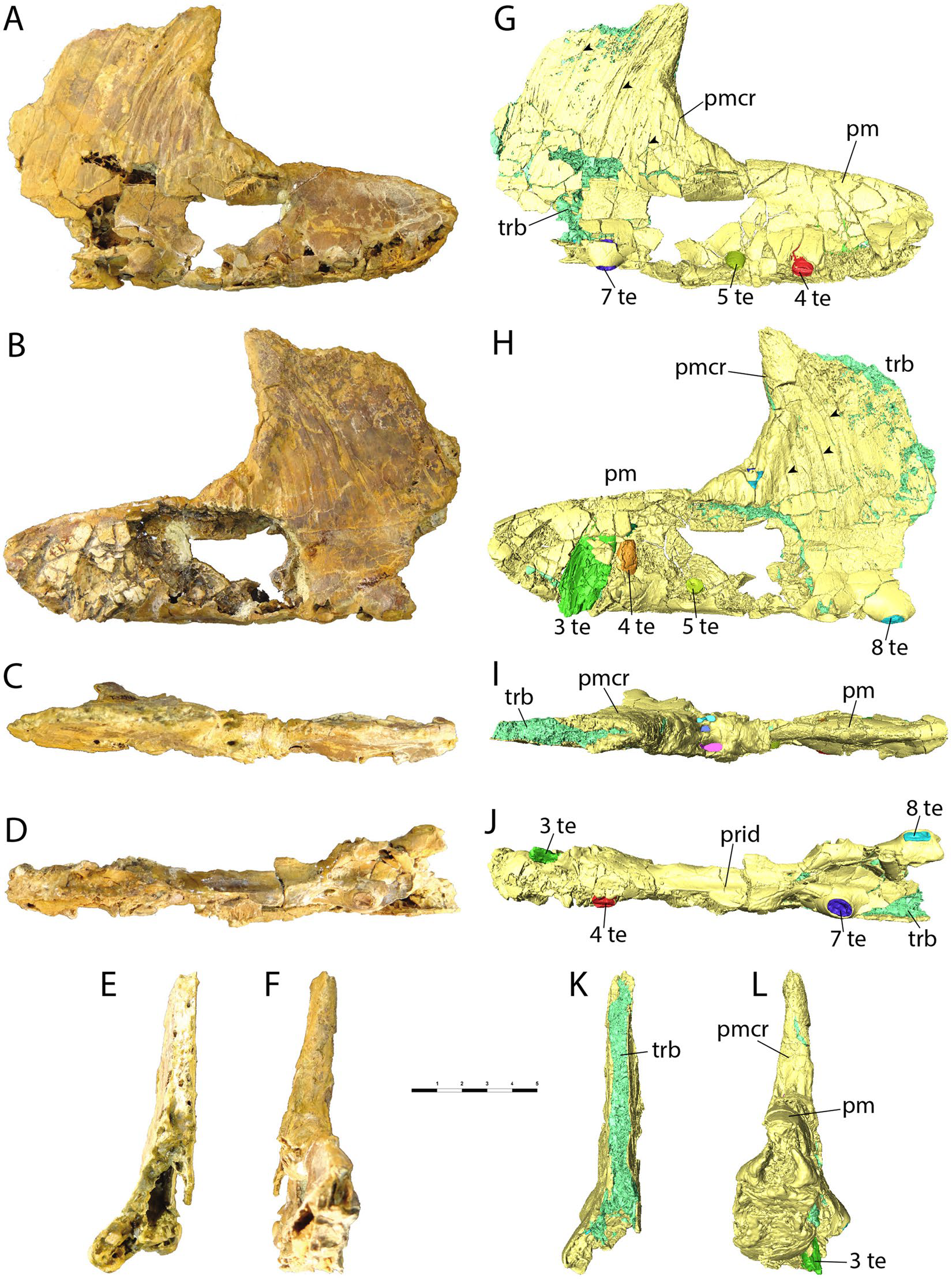 Partial rostrum of Iberodactylus andreui gen. et sp. nov. (MPZ-2014/1). Photographic images (A–F) and 3D renderings obtained from μCT data (G–L) in right lateral (A,G), left lateral (B,H), dorsal (C,I), palatal (D,J), caudal (E,K), and cranial (F,L) views. Scale bar in cm. Abbreviations. pm: premaxilla; pmcr: premaxillary crest; prid: palatal ridge; te: teeth; trb: trabeculae.